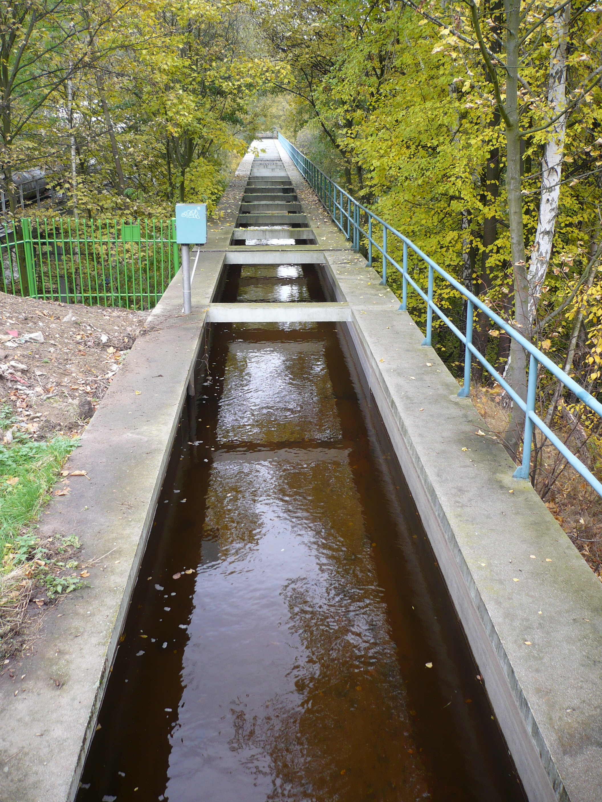 Aqueduct over Chomutovka